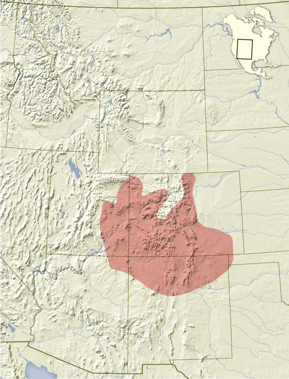 Distribution map of the Colorado chipmunk